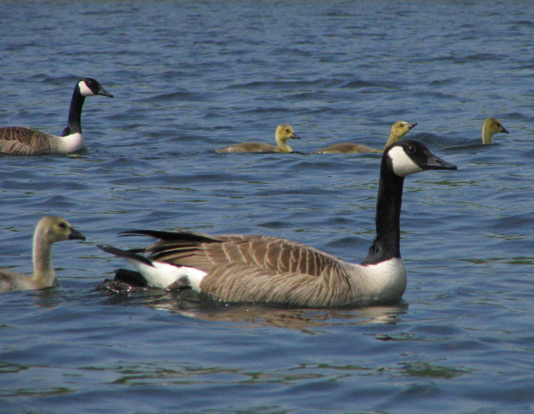 Canada geese and goslings (Branta canadensis). Taken by User:Mwanner, 2 June, 2005.